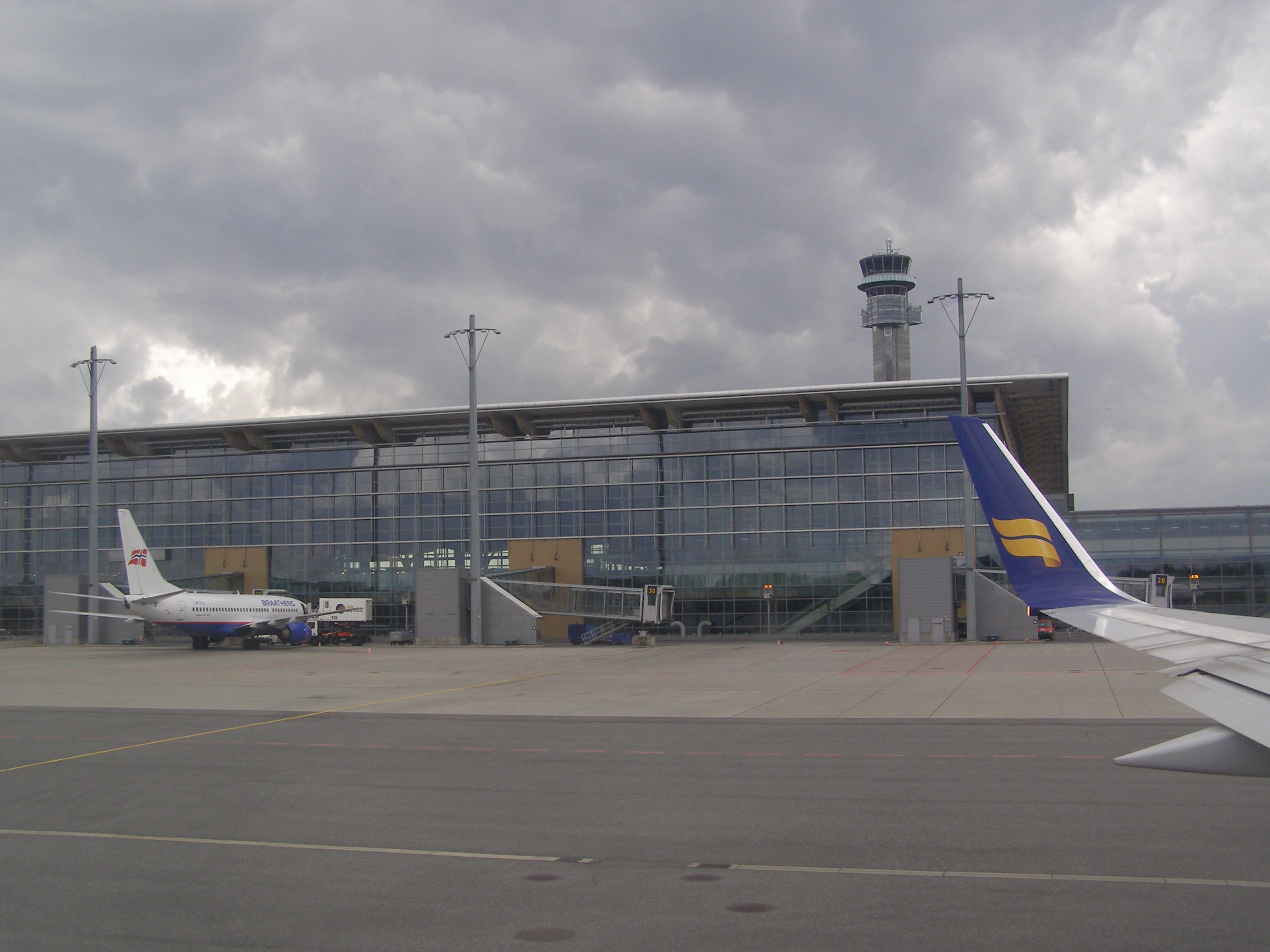 Oslo Airport, Gardermoen with a Braathens Boeing 737-500 as seen from an Icelandair airplane.